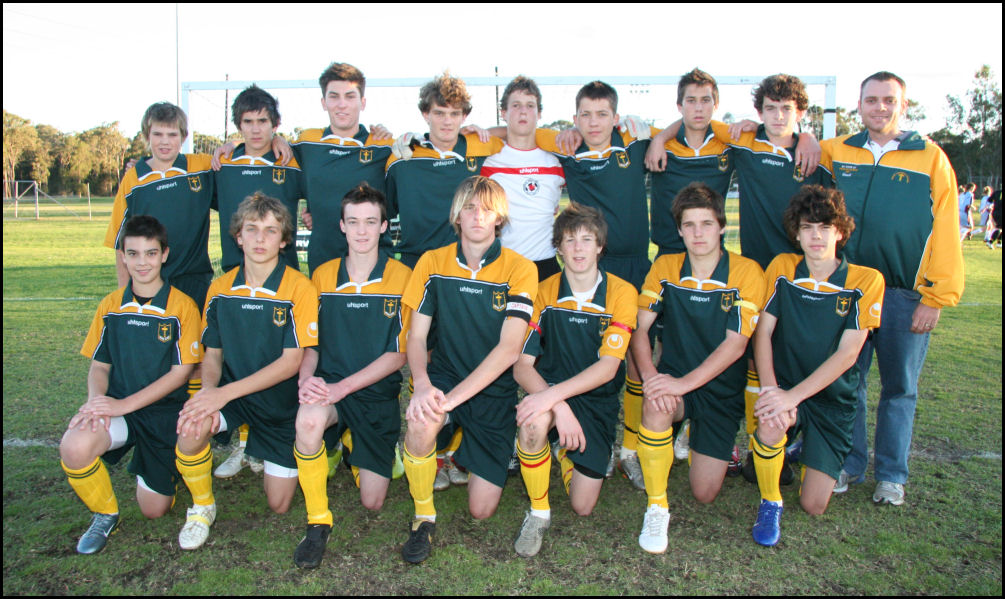 Grace Lutheran College Bill Turner Cup Team of 2007 For information on permissions